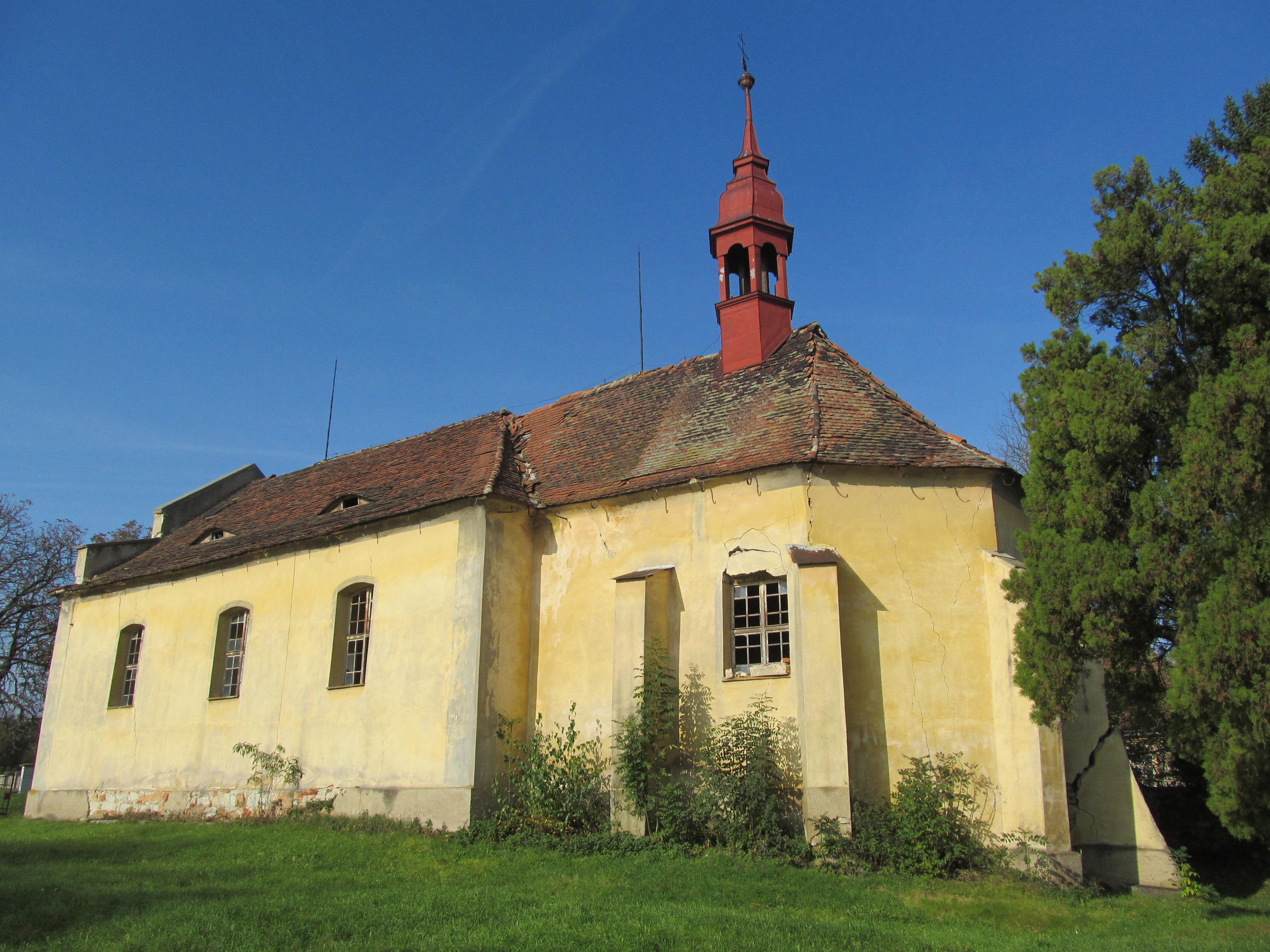 Presbytery of the church of St. Catherine in Kněžice